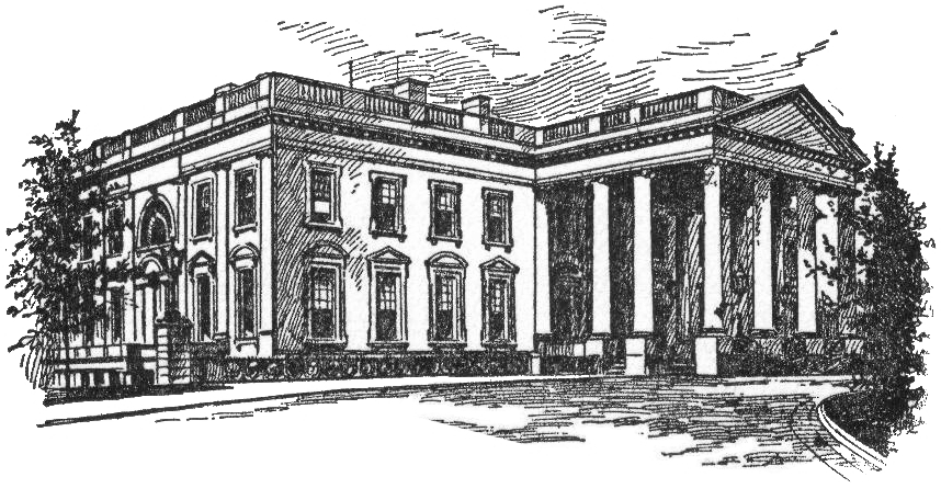 "WHITE HOUSE OR EXECUTIVE MANSION"